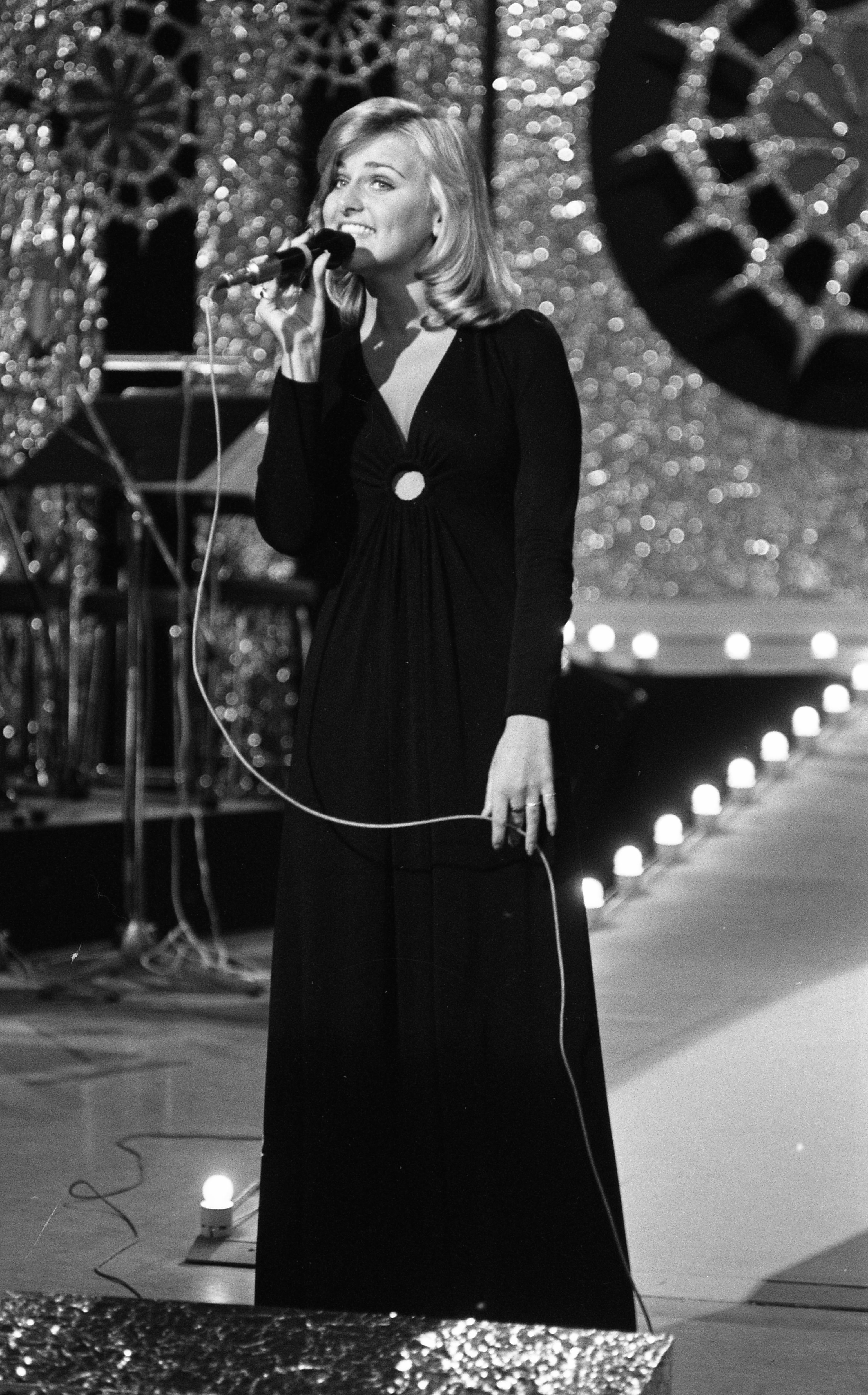 Melodi Grand Prix, norsk finale i TV-studio 1 NRK, 1974. Fra generalprøven. Foto: Petter R. Iversen. Arkivref.: PA-0797_U_7631_014_011 This image was taken from Flickr's The Commons. The uploading organization may have various reasons for determining that no known copyright restrictions exist, such as: The copyright is in the public domain because it has expired; The copyright was injected into the public domain for other reasons, such as failure to adhere to required formalities or conditions; The institution owns the copyright but is not interested in exercising control; or The institution has legal rights sufficient to authorize others to use the work without restrictions. More information can be found at Please add additional copyright tags to this image if more specific information about copyright status can be determined. See Commons:Licensing for more information.No known copyright restrictionsNo restrictions